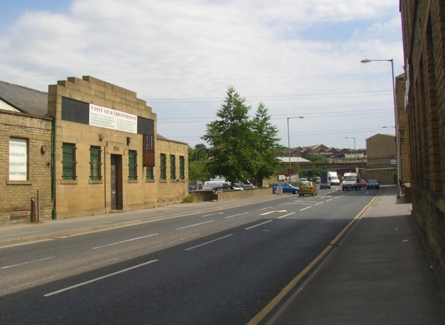 1930s architecture, Huddersfield Road, Ravensthorpe. The date over the door is 1934.